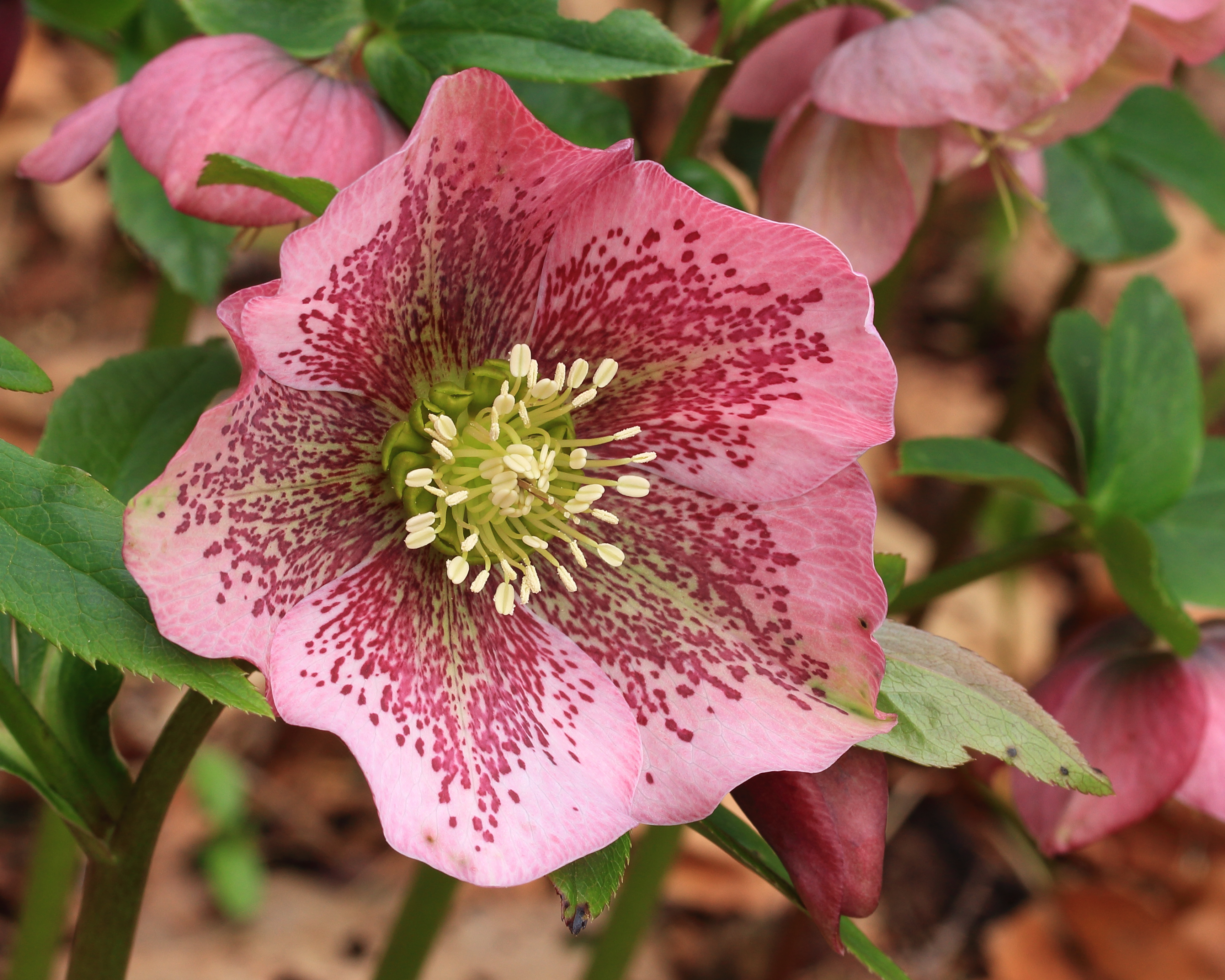 Helleborus orientalis. spring Rose.